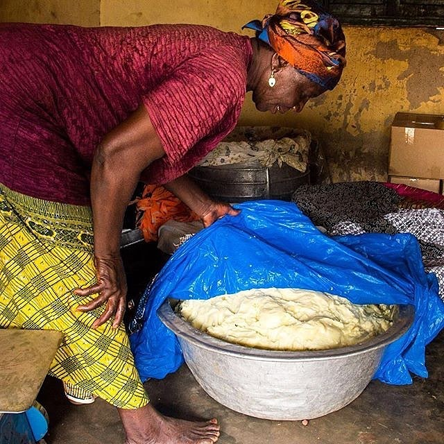 A woman making Shea butter in Lagos Nigeria This is an image of "African people at work" from Nigeria